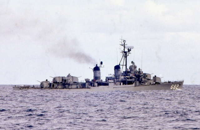 The U.S. Navy Fletcher-class destroyer USS Porterfield (DD-682) underway during her 1966-1967 on deployment to the Western Pacific. Note that the ship basically still has her World War II appearance, she only received new tripod foremast with SPS-6 radar, and lost her torpedo launcher.